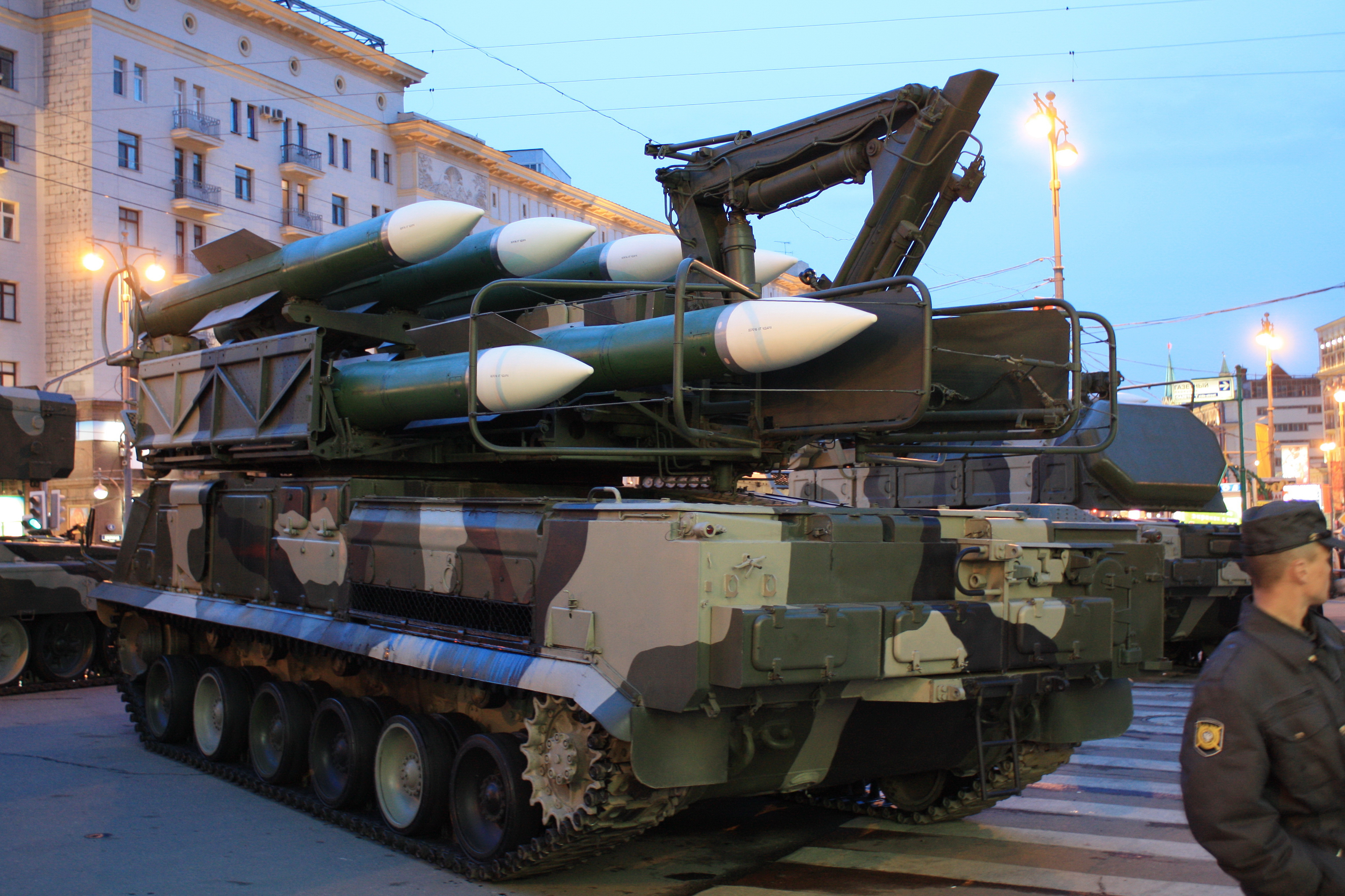 Transport-erector-launcher (TEL) of the SAM Buk-M2 - 9A316, at a rehearsal parade on Red Square May 4, 2010